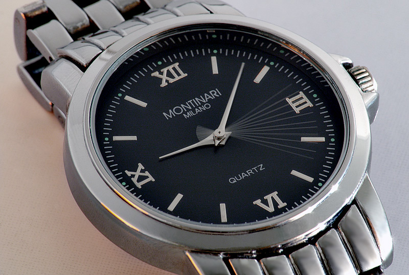 This image shows 10 seconds of a Montinari Milano watch.